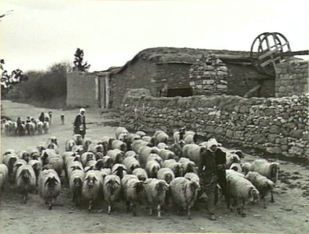 Shepard and sheeps in Qastina